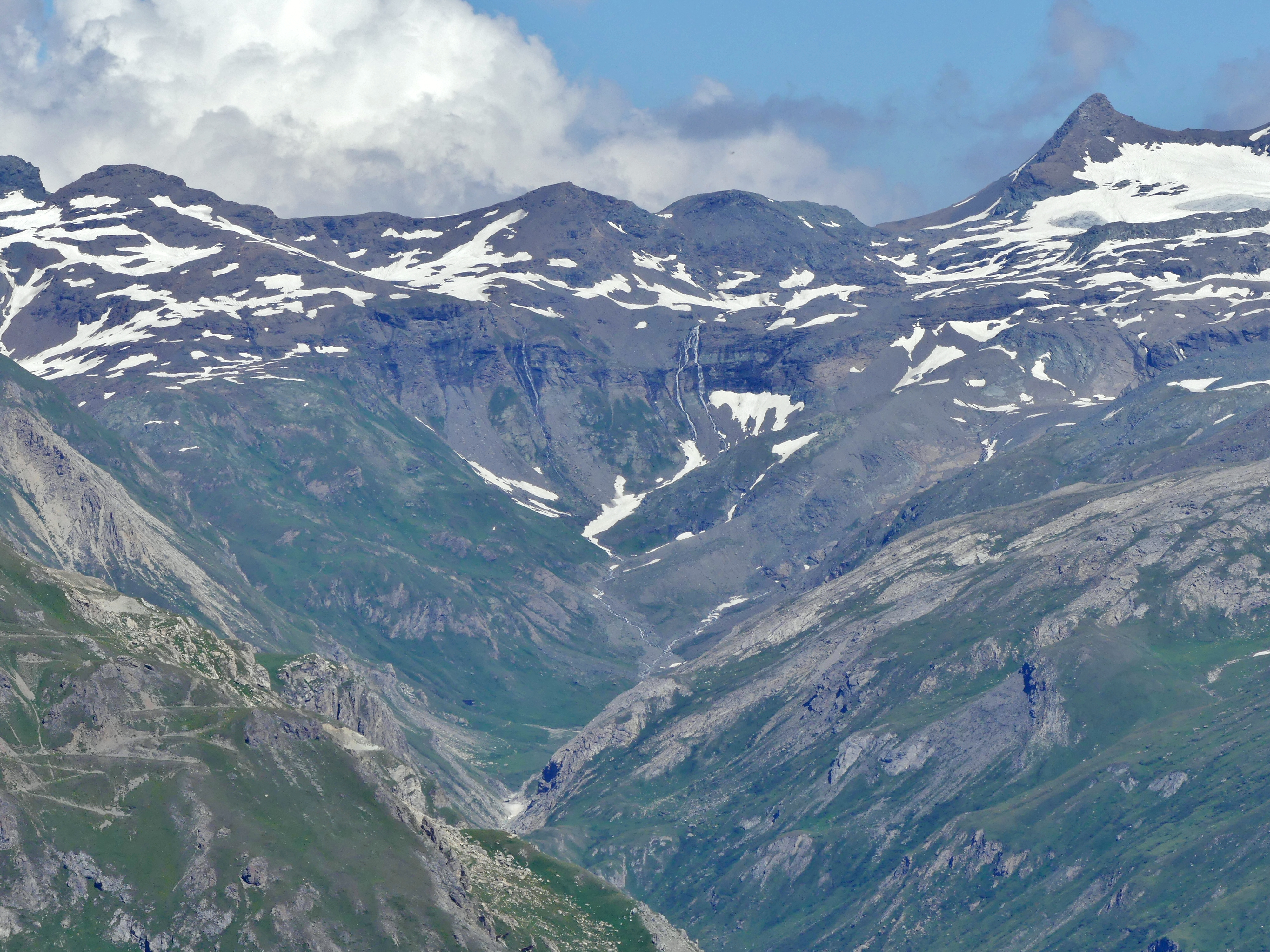 Sight, in summer from the heights of Tignes, of the river Isère source at the far east of Savoie in the French Alps.